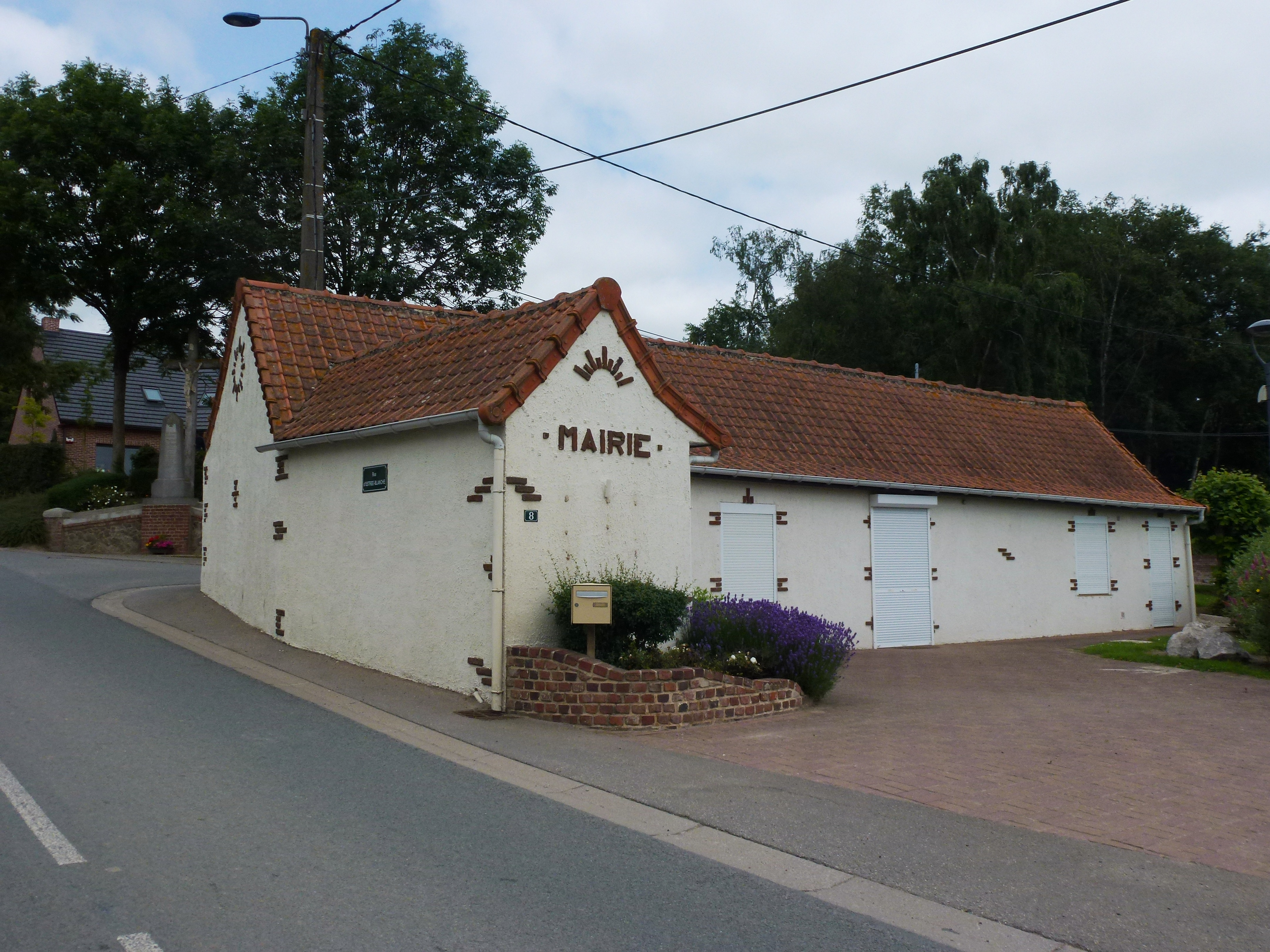 Rombly (Pas-de-Calais) mairie